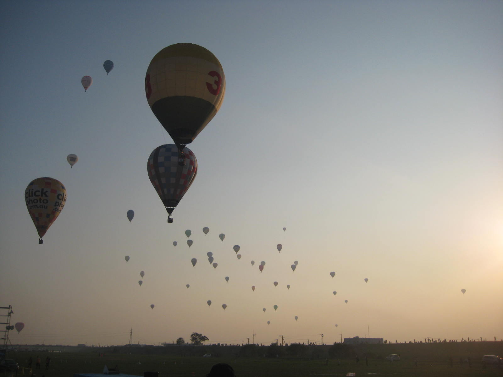 Saga International Balloon Fiesta